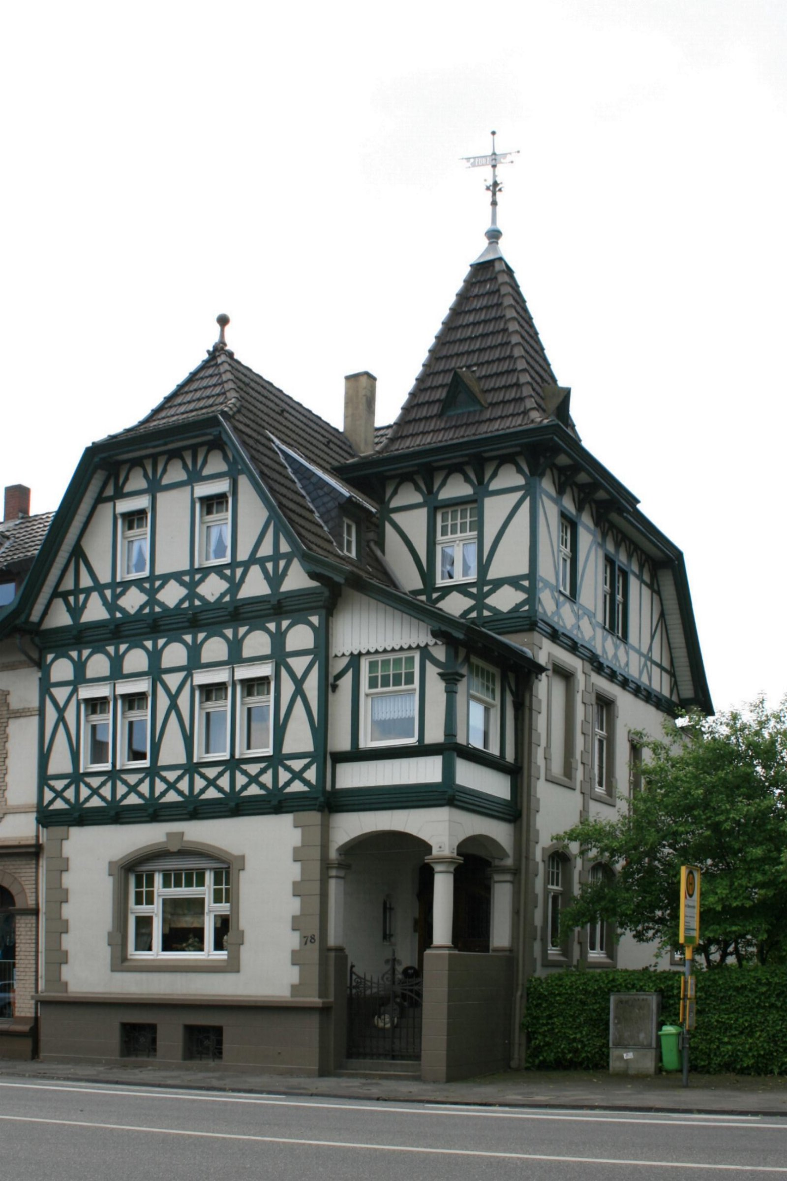 Cultural heritage monument No. K 043 in Mönchengladbach